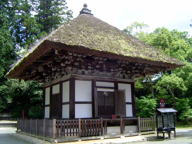 Kanshinji temple、tatekakenotou, Kawachinagano.